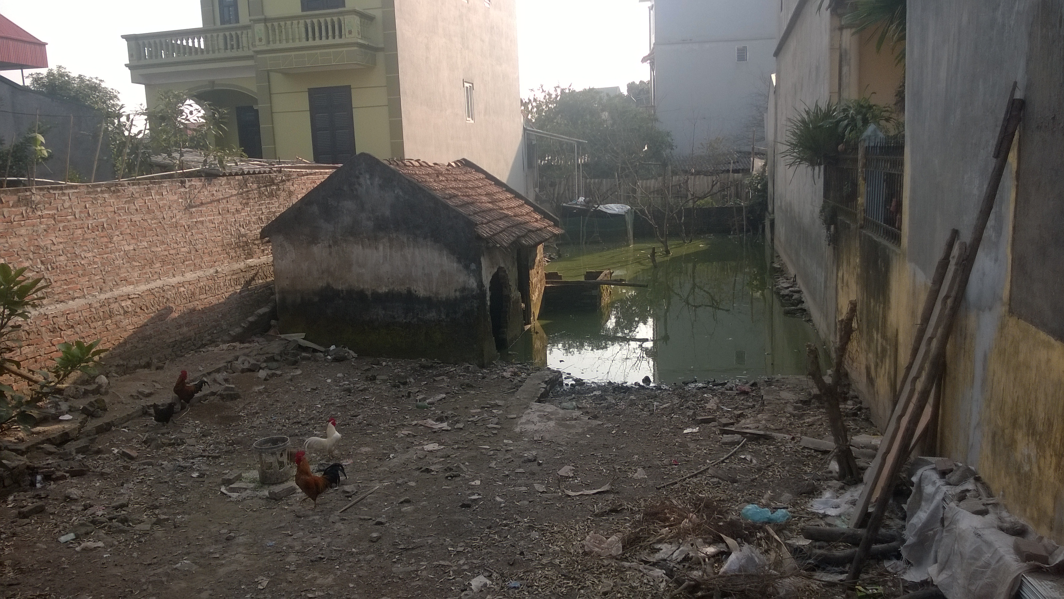 Cu Khoi chicken house and drowned sheds.